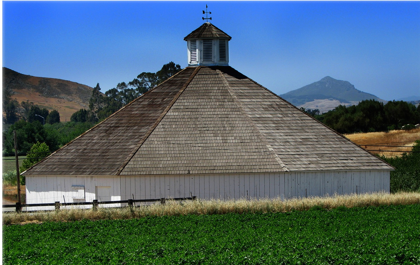 Octagon Barn (San Luis Obispo, California) Interior (roof) and Exterior